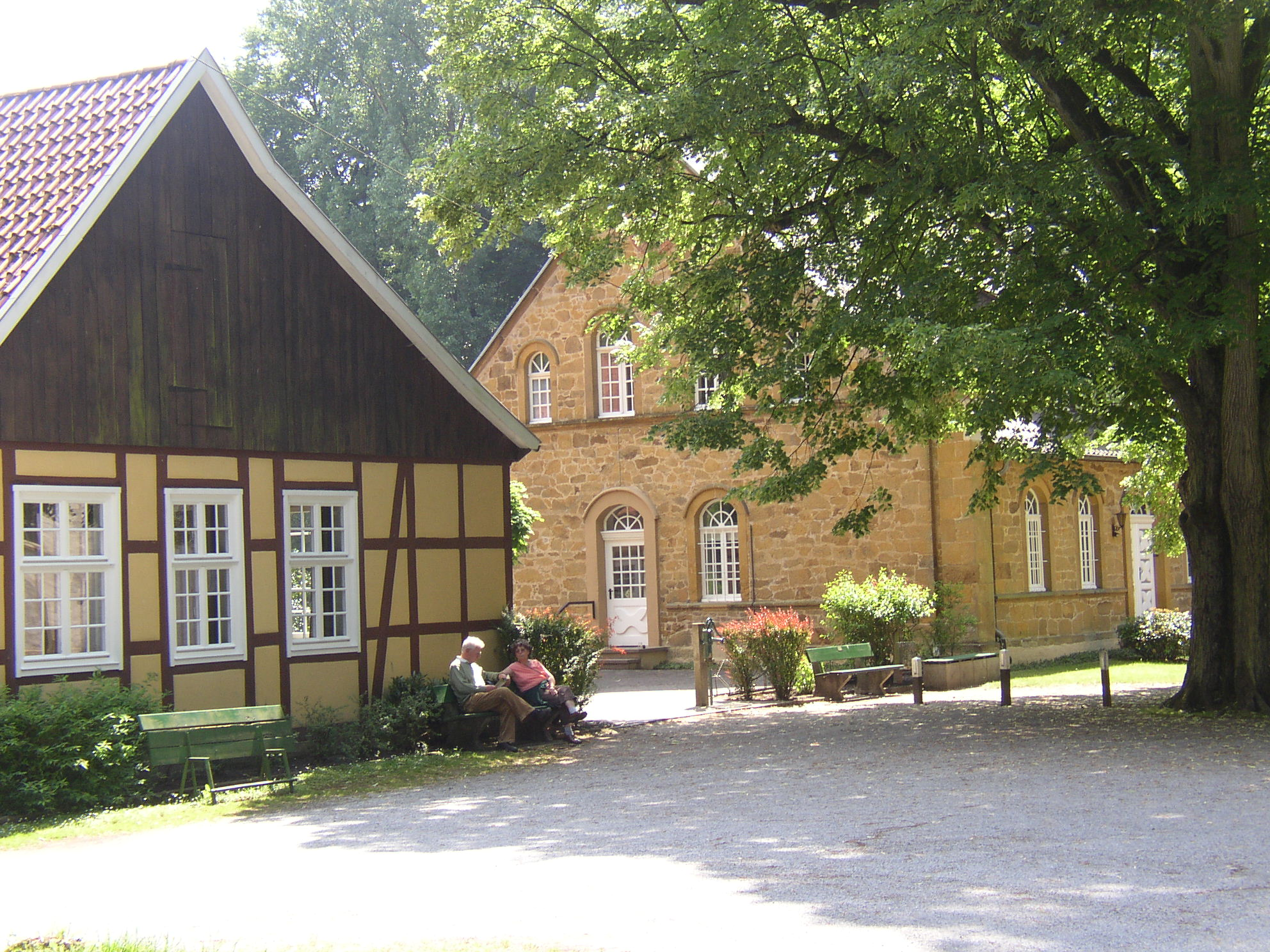 former school house and parsonage (in the back) in Stockkämpen in Halle (Westfalen)